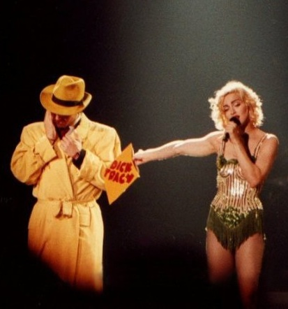 Photo taken during one of the concerts in 1990